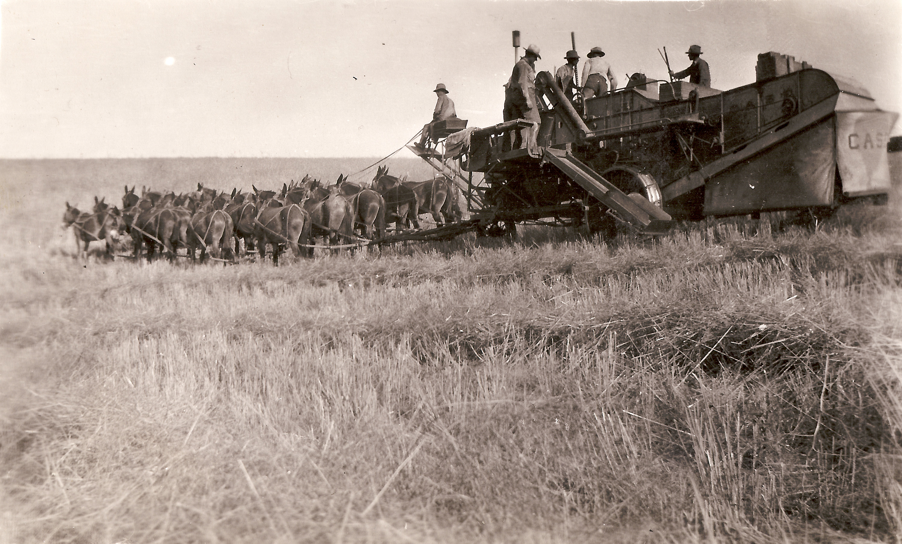 I scanned a picture from one of my mother-in-laws albums. I estimate this was from around 1912. Can anybody tell a moronic city boy what the mules are pulling?